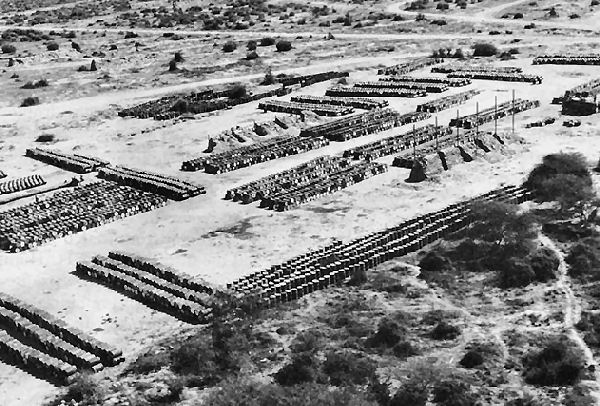 Aircraft fuel dump in China, 1944